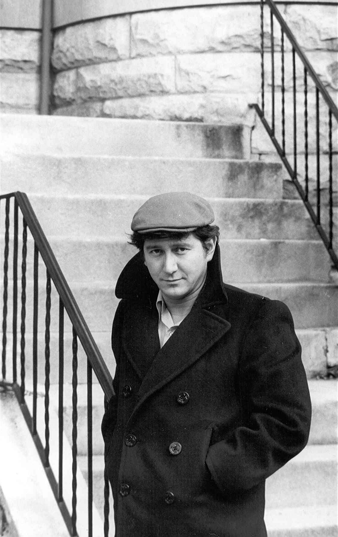 Phil Ochs outside the offices of the National Student Association in Washington, DC